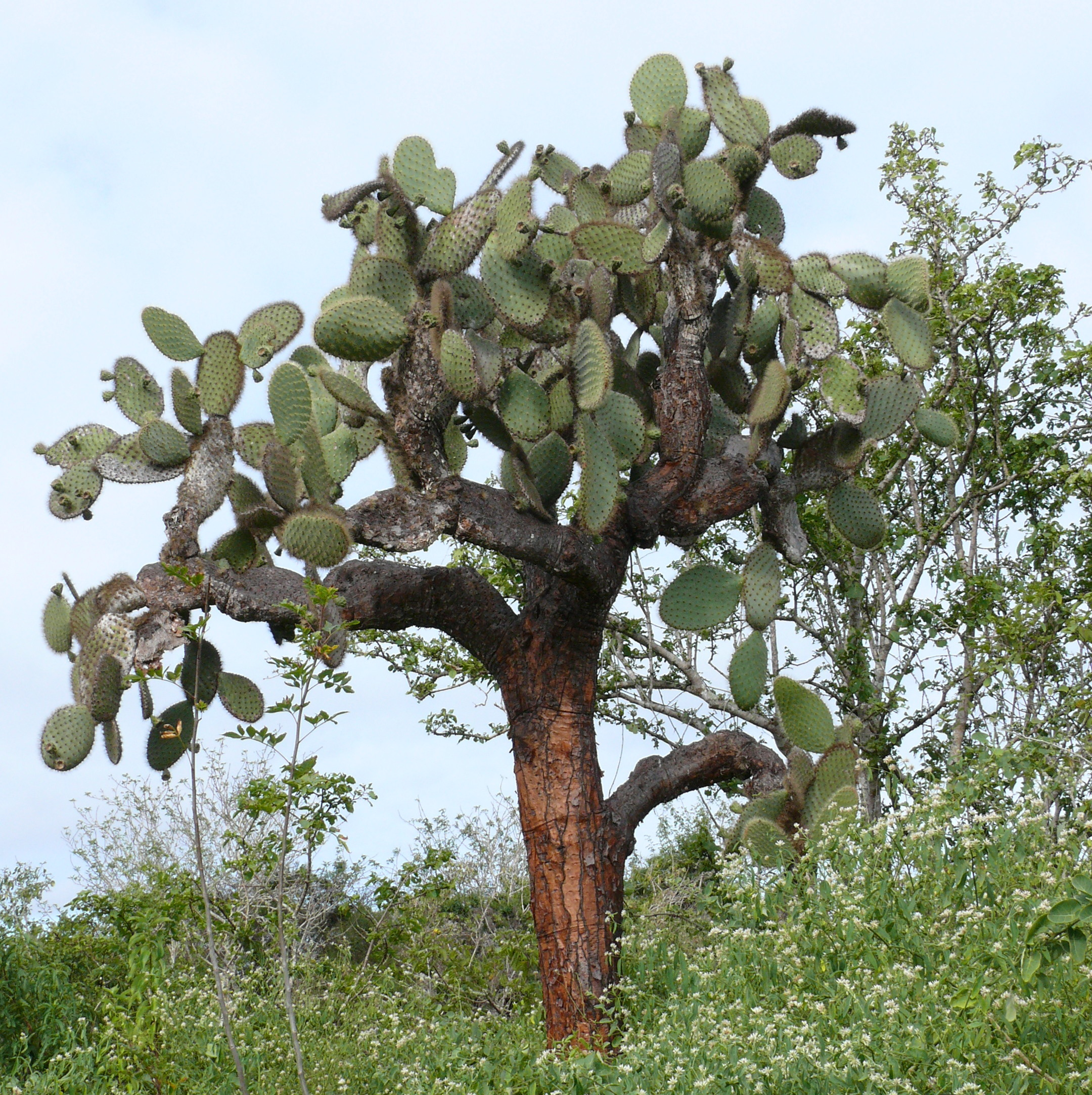 Opuntia echios